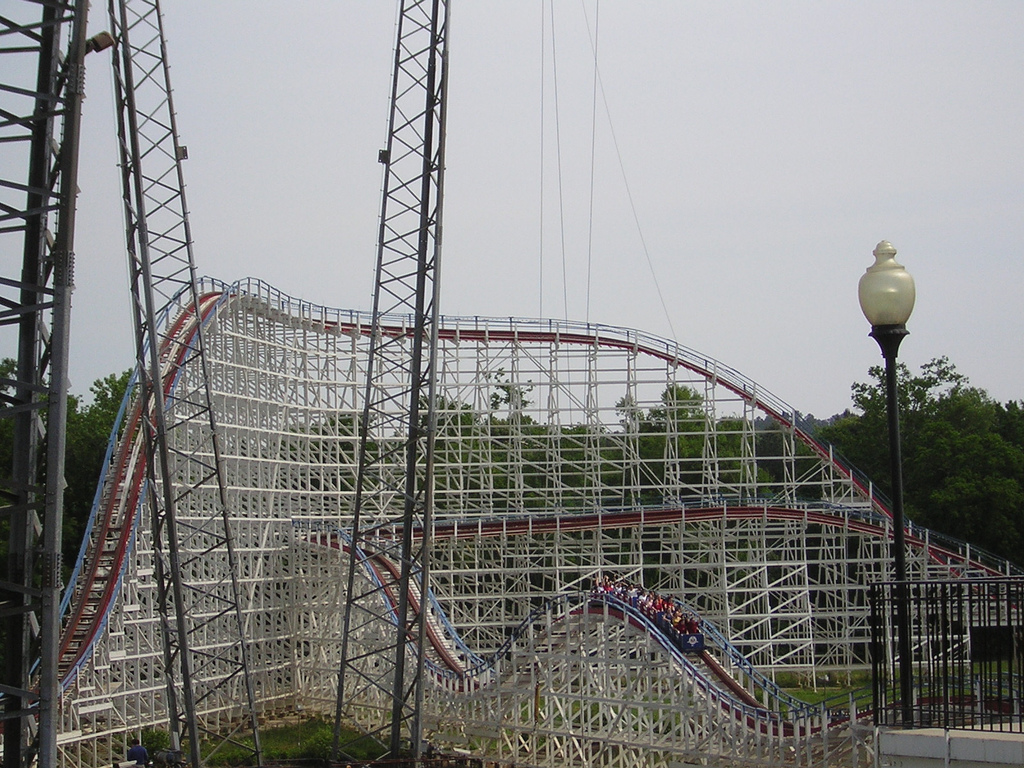 Great American Scream Machine, wooden roller coaster at Six Flags Over Georgia, USA.